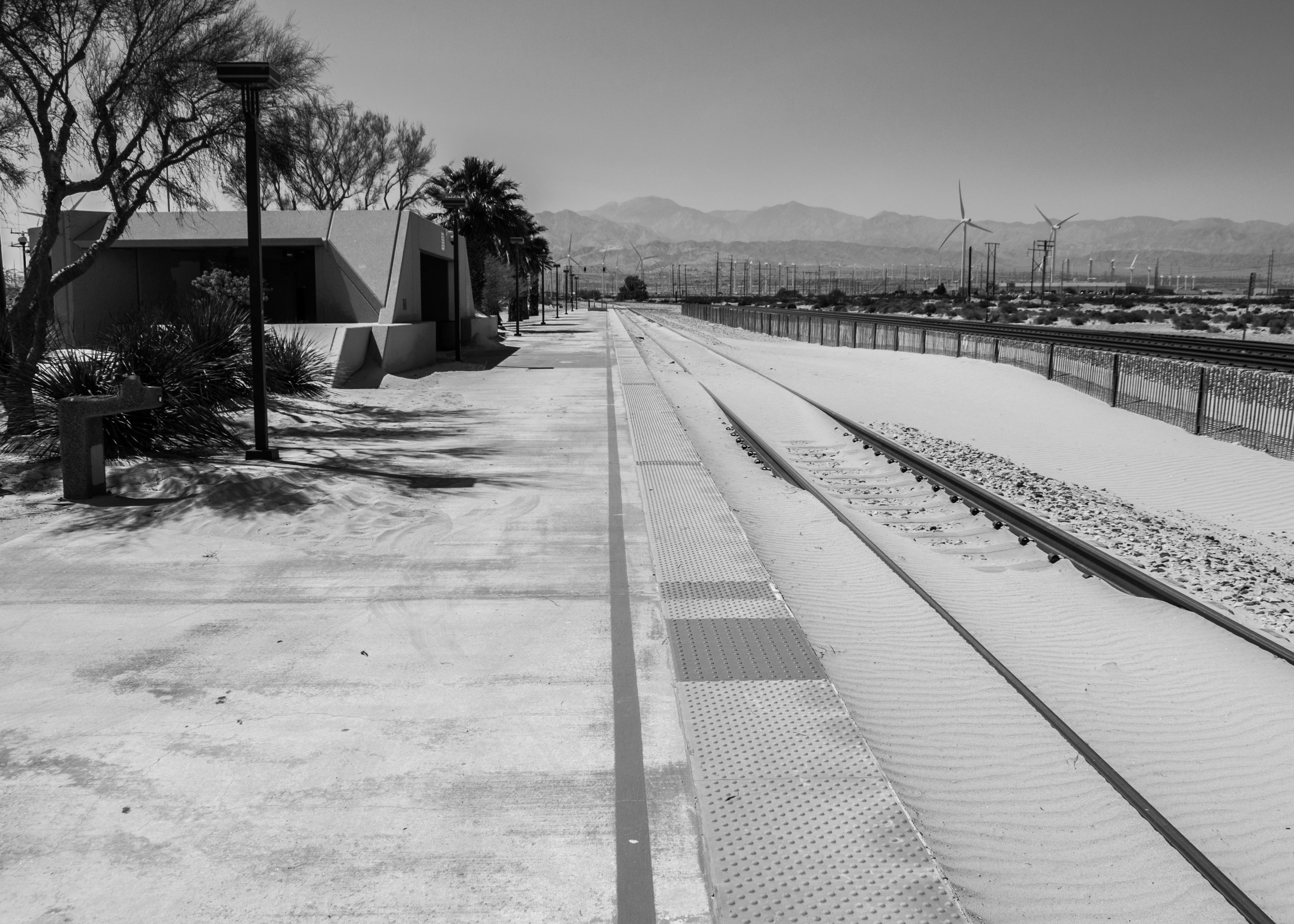 The desert encroaches upon the Amtrak Station in Palm Springs, California